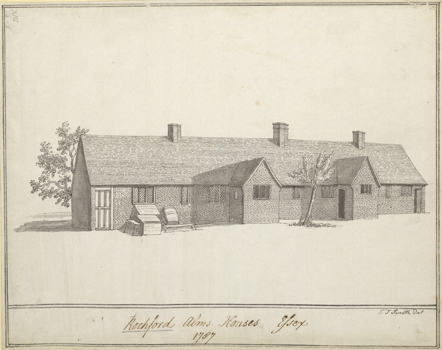 Ink-wash illustration of Rochford Alms houses in Essex, 1787.